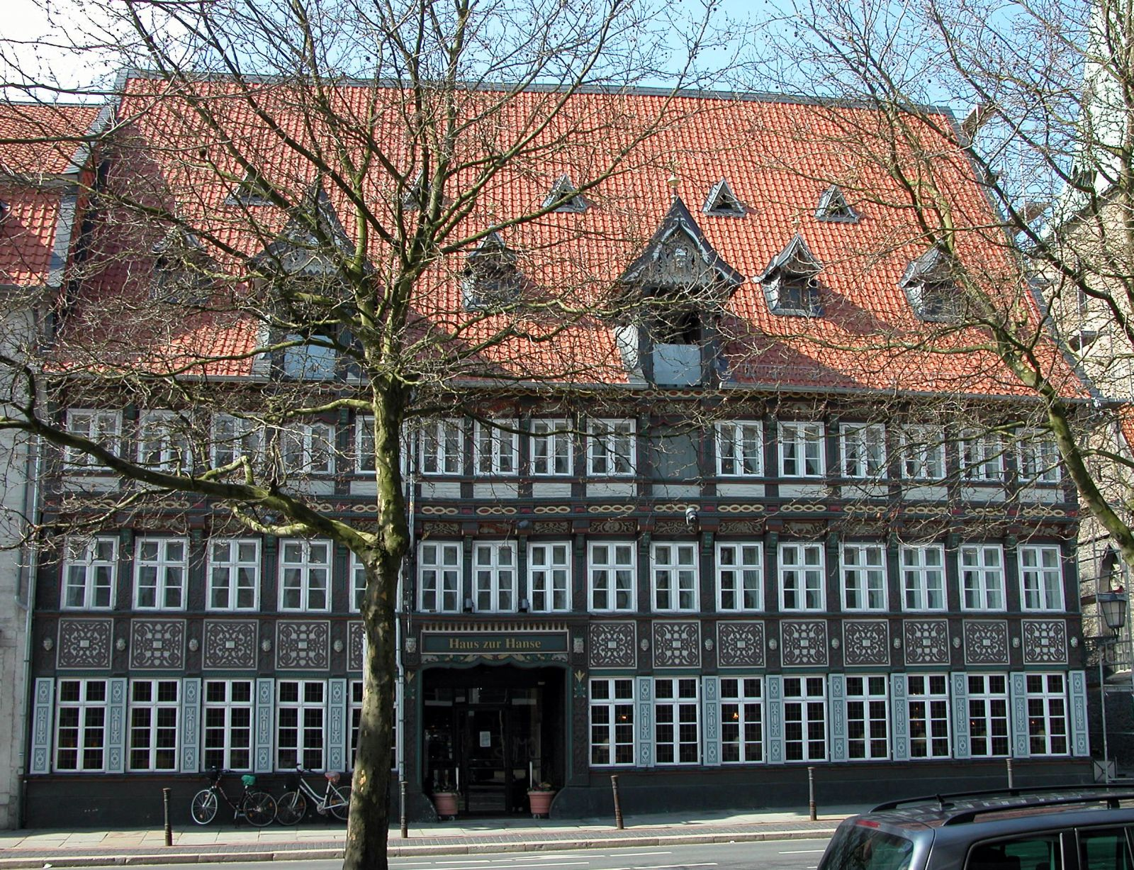 Brunswick, Germany: “Haus zur Hanse” (House of the Hanseatic League) as seen from the east.